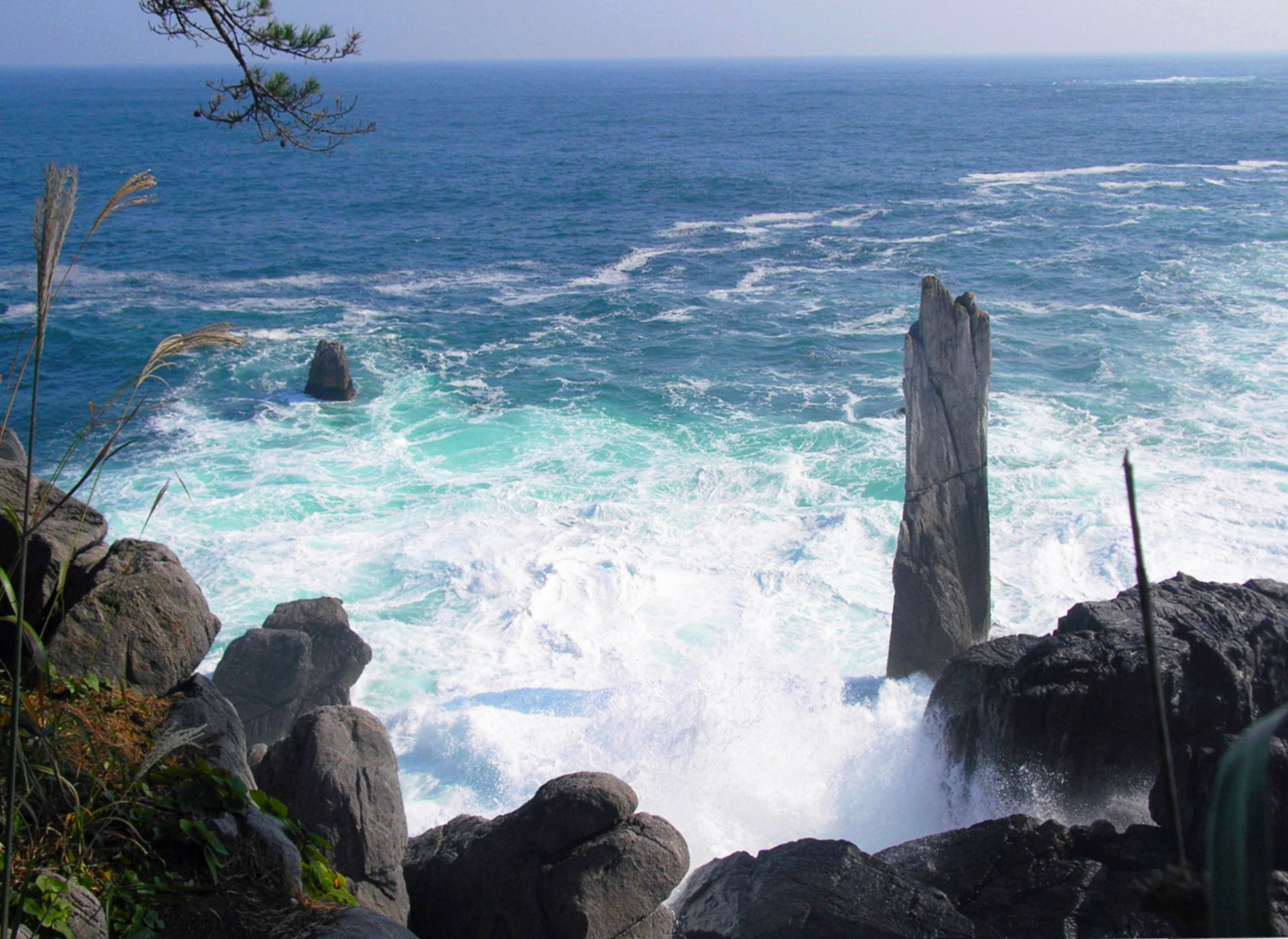 The Ogama coast in Kesennuma City, Miyagi Prefecture, Japan